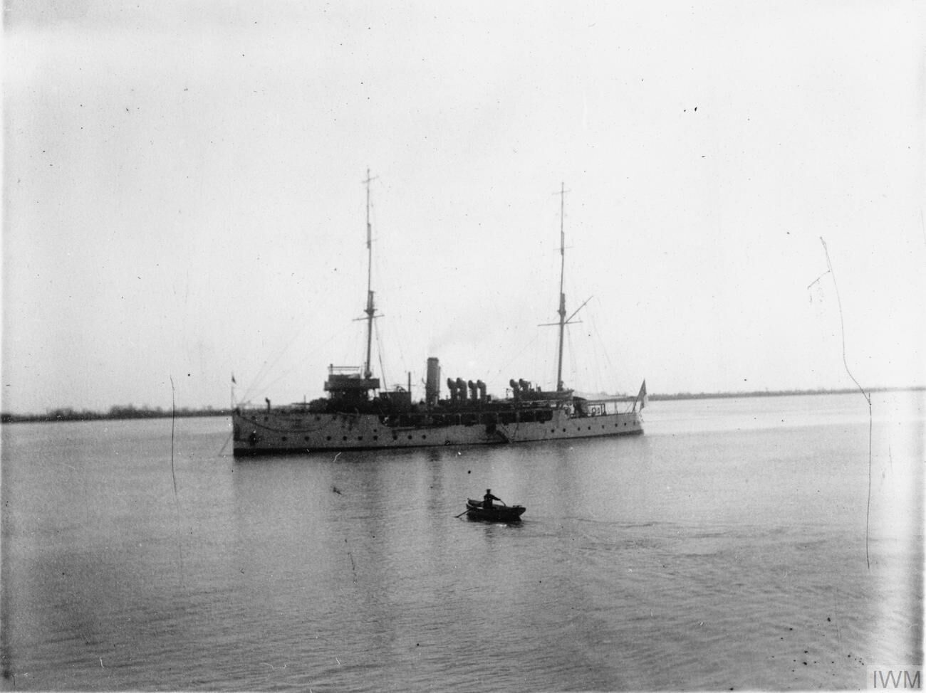 HMS Thistle, 1st Class Gunboat at the China Station 1910 - 1912 HMS THISTLE after installation of wireless telegraphy equipment.